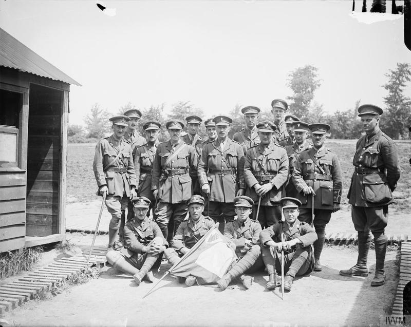 The Battle of Messines, June 1917 Officers of the 11th Battalion, Royal Inniskilling Fusiliers (109th Brigade, 36th Division) after the capture of Wytschaete, 12 June 1917.